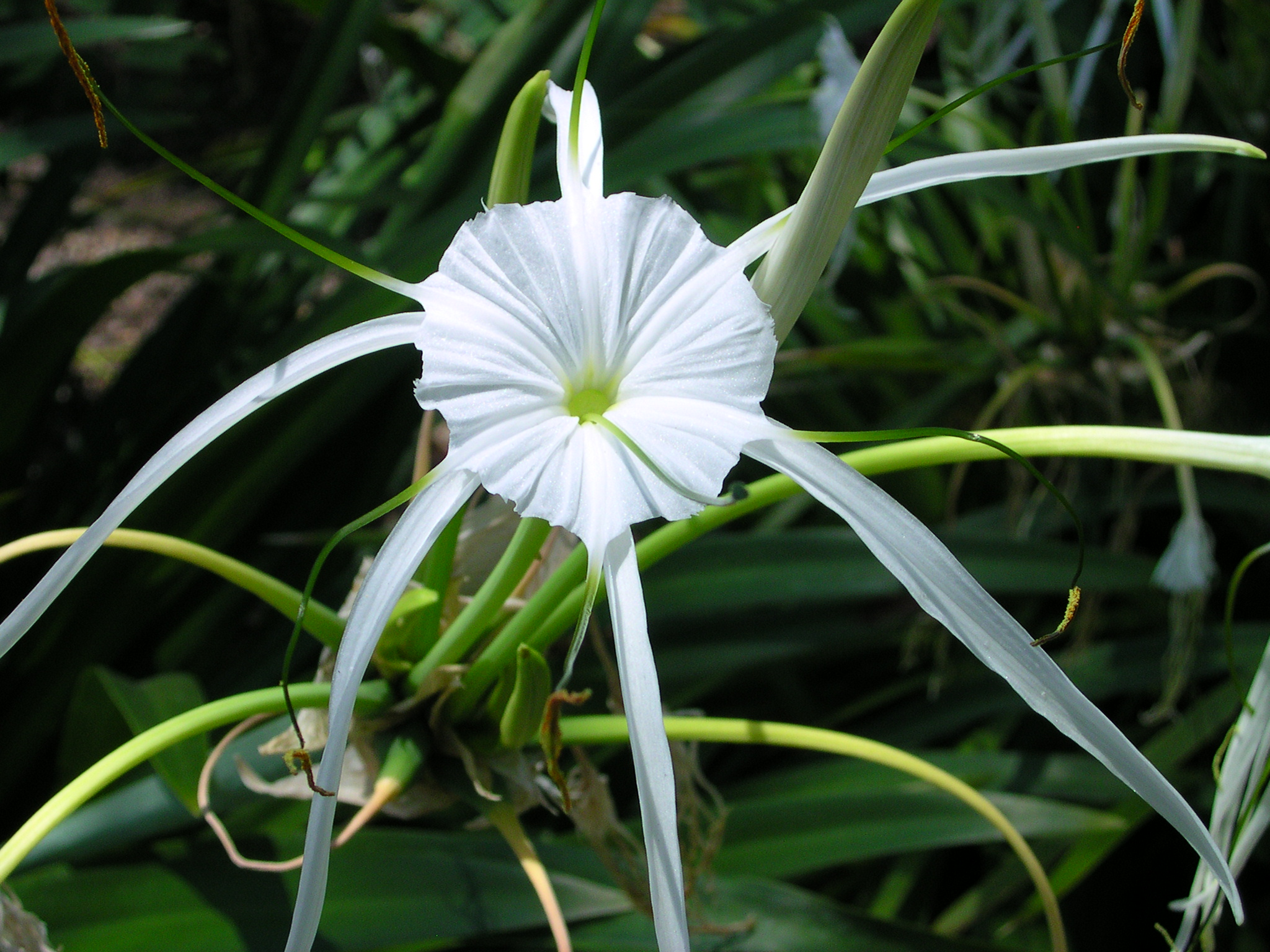 Hymenocallis littoralis Hymenocallis littoralis - Spider Lily Amaryllidaceae Kingdom: Plantae Division: Magnoliophyta Class: Liliopsida Order: Asparagales